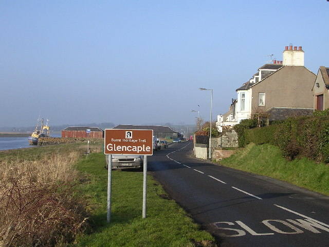 Glencaple Village. On the Rabbie Burns Heritage Trail